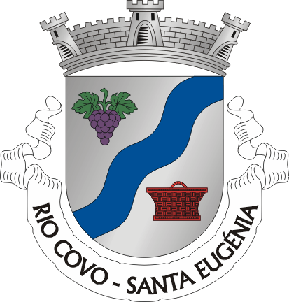 Crest of Rio Covo (Santa Eugénia), a parish in the municipality of Barcelos (Portugal)